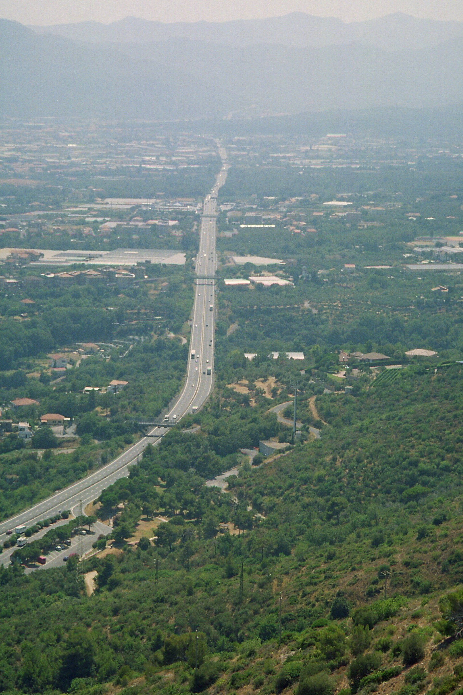 A10 highway, Italy, near Albenga